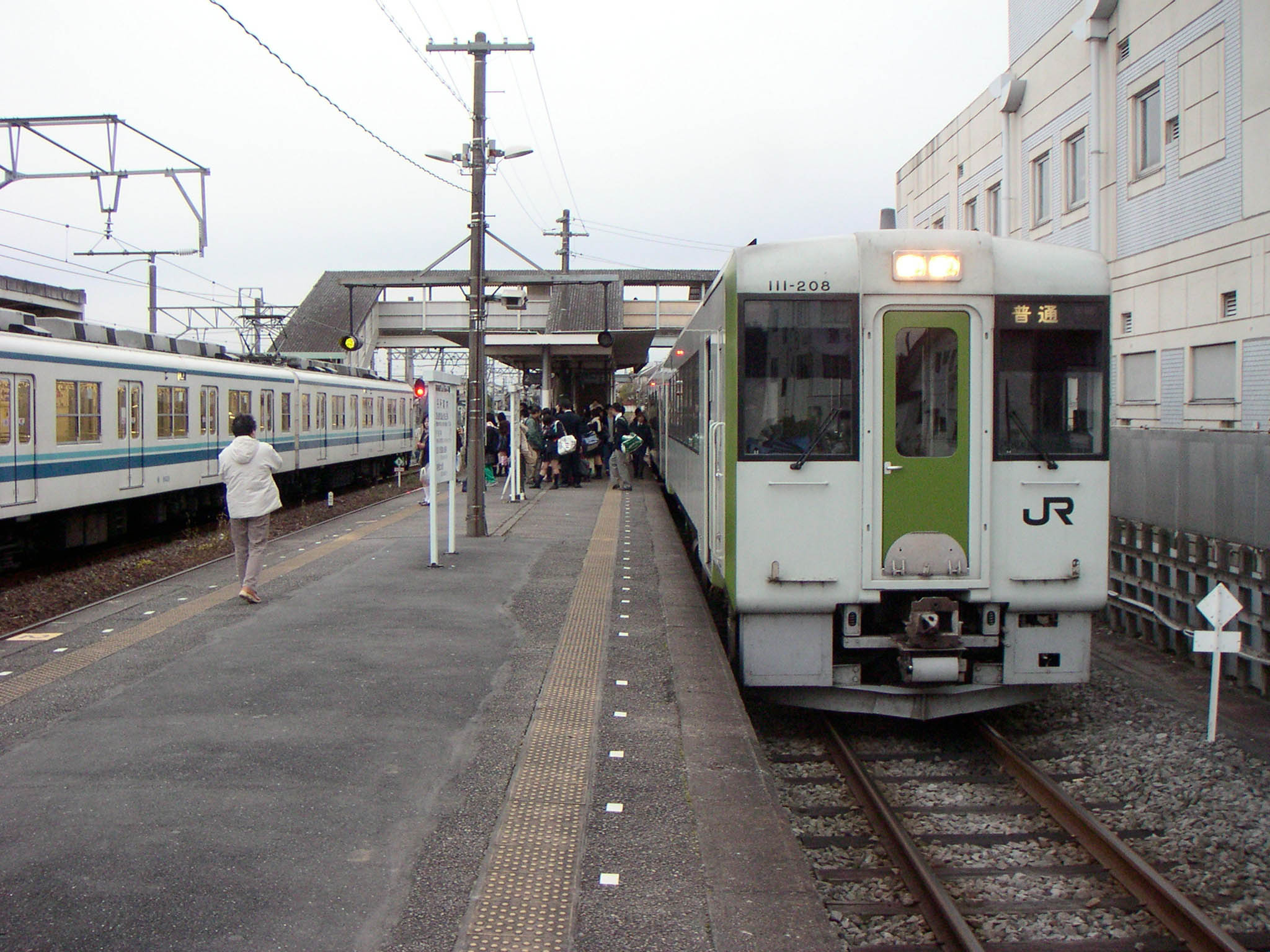 A JR East KiHa 110 diesel multiple unit on a northbound Hachiko Line service at Ogose Station, with a Tobu Ogose Line train visible on the left